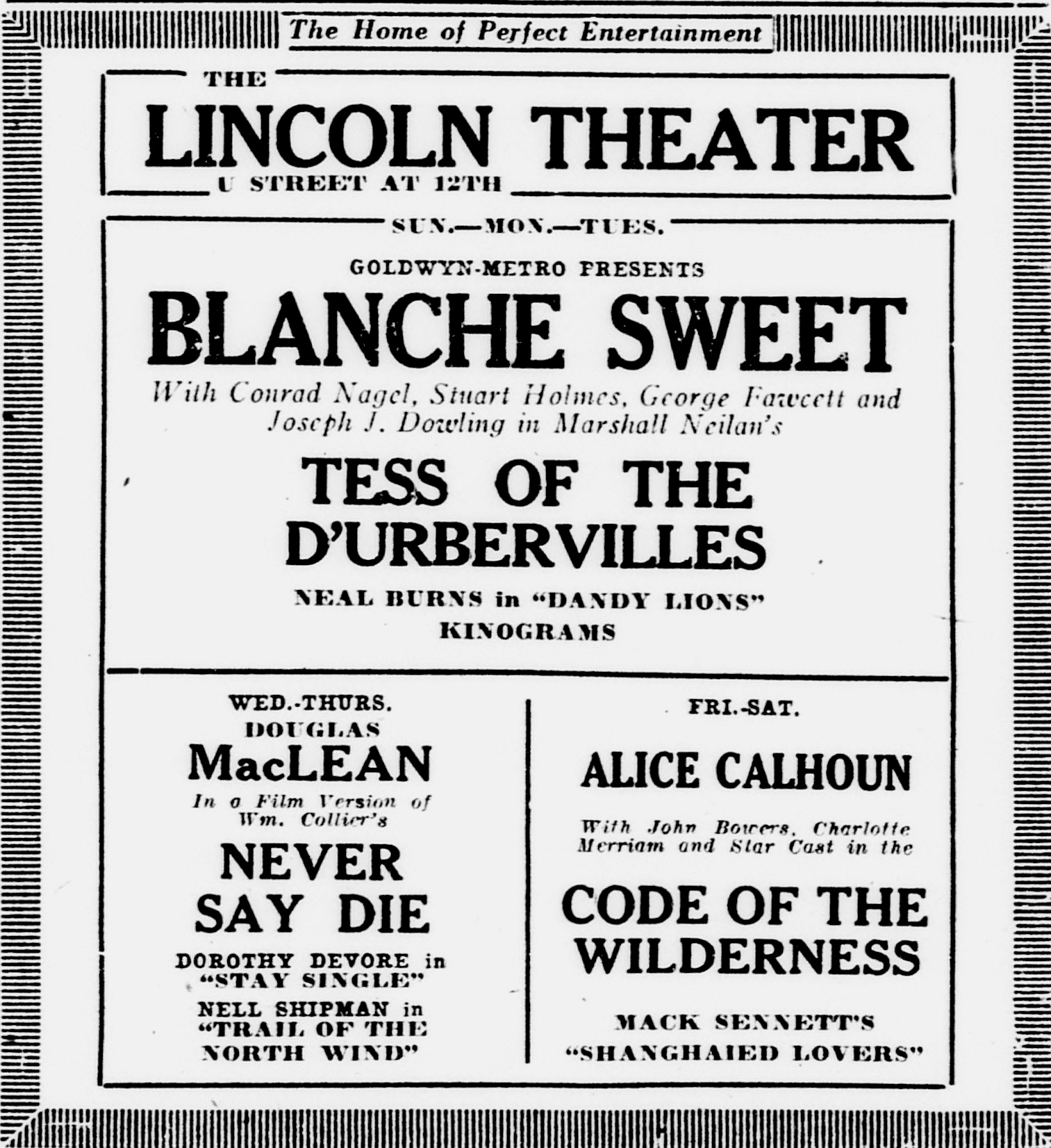 Tess of the d'Urbervilles was a 1924 American silent drama film starring Blanche Sweet, and Conrad Nagel